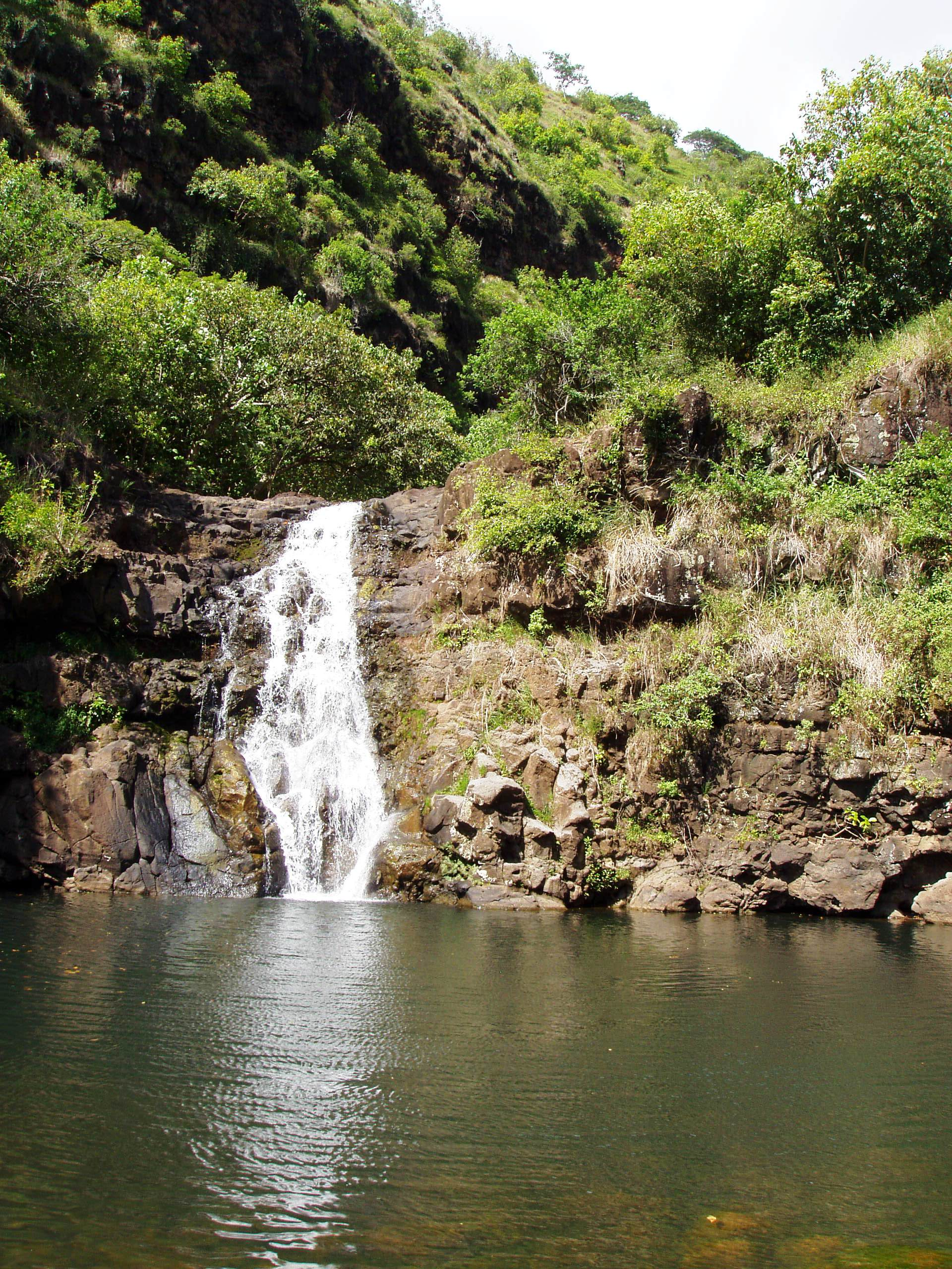 Waimea Valley Audubon Center, Oahu, Hawaii - waterfall view.